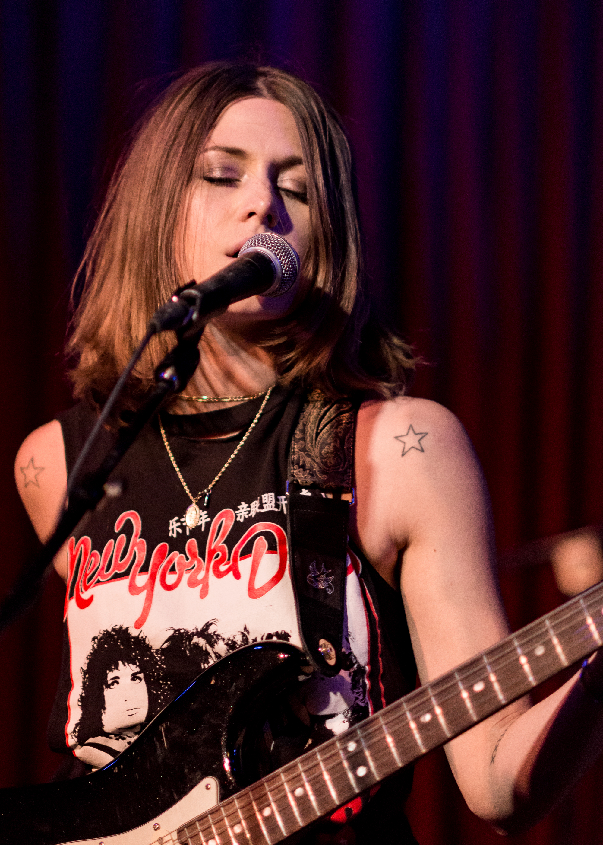 Larkin Poe performing live at the Hotel Cafe in Hollywood, Los Angeles, California, on Tuesday, October 24, 2017.